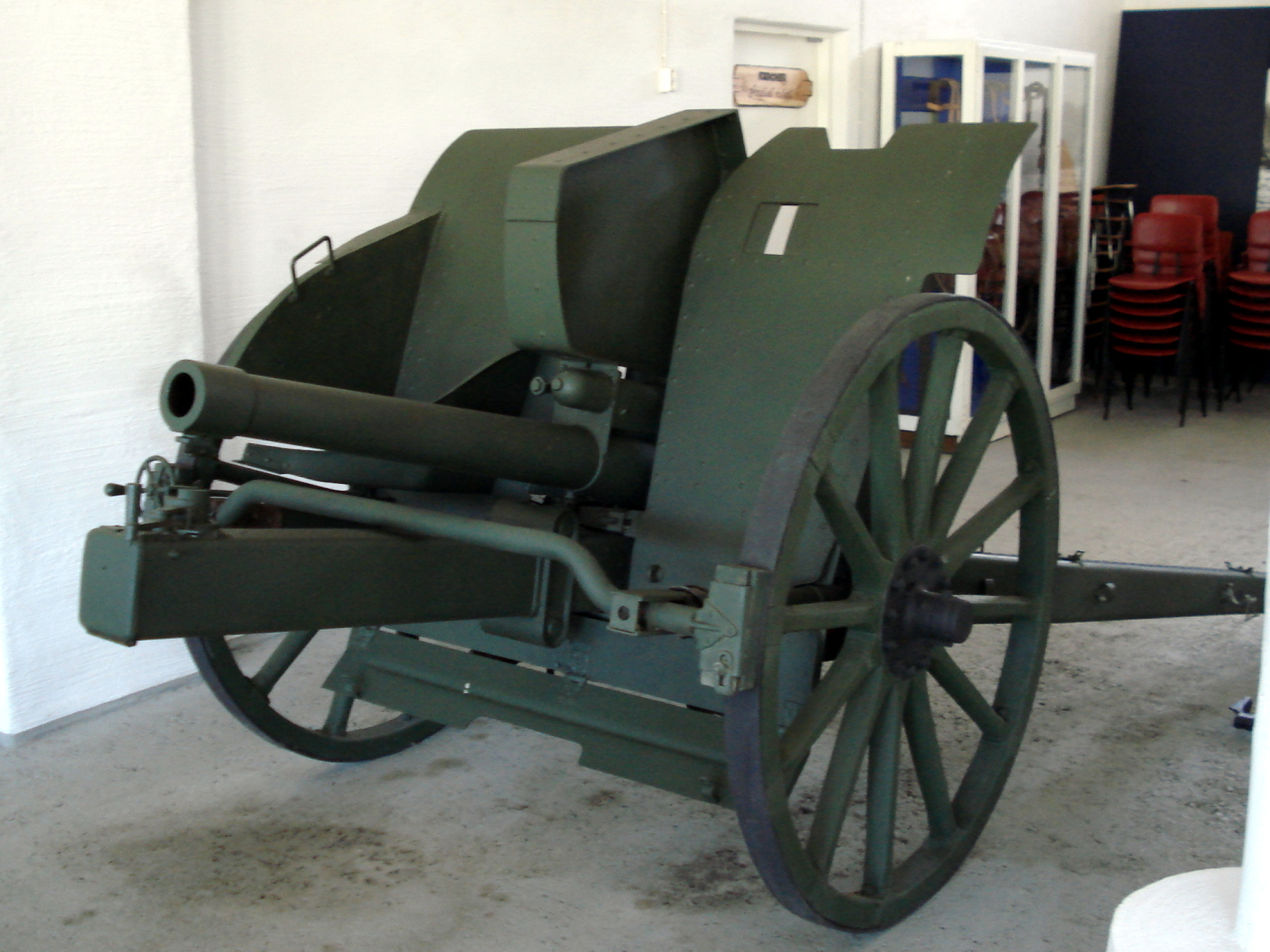 Italian Cannone da 75 modello 11, displayed in Hämeenlinna Artillery Museum. This gun was donated to Finnish armed forced by Italy in 1929. Photo taken on June 18, 2006. Source: Photo by me, User:Balcer. Description: [1]